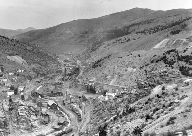 Gilpin Tram